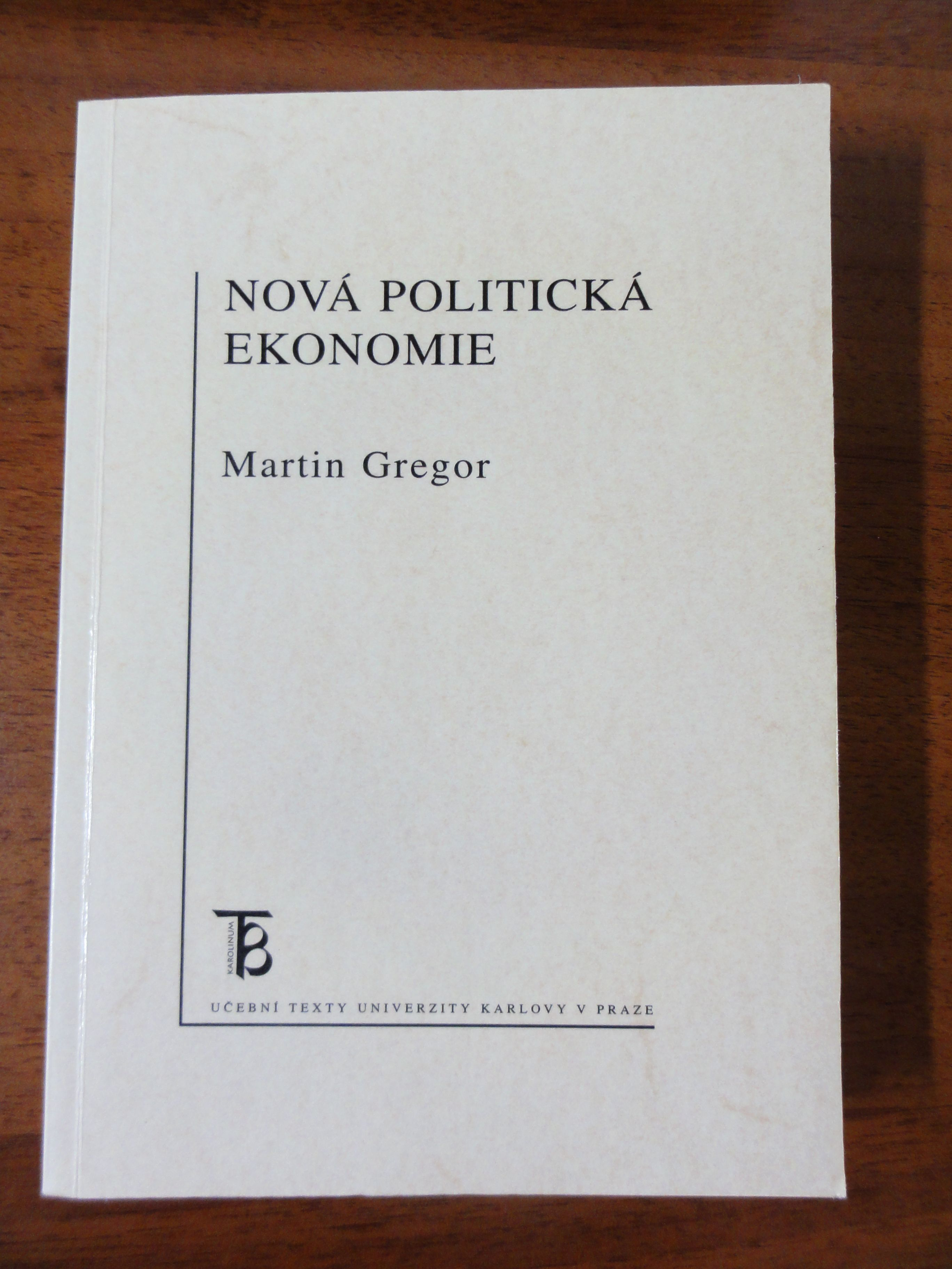 Martin Gregor - New Political Economy, Prague 2005 (language: Czech). Textbook cover.